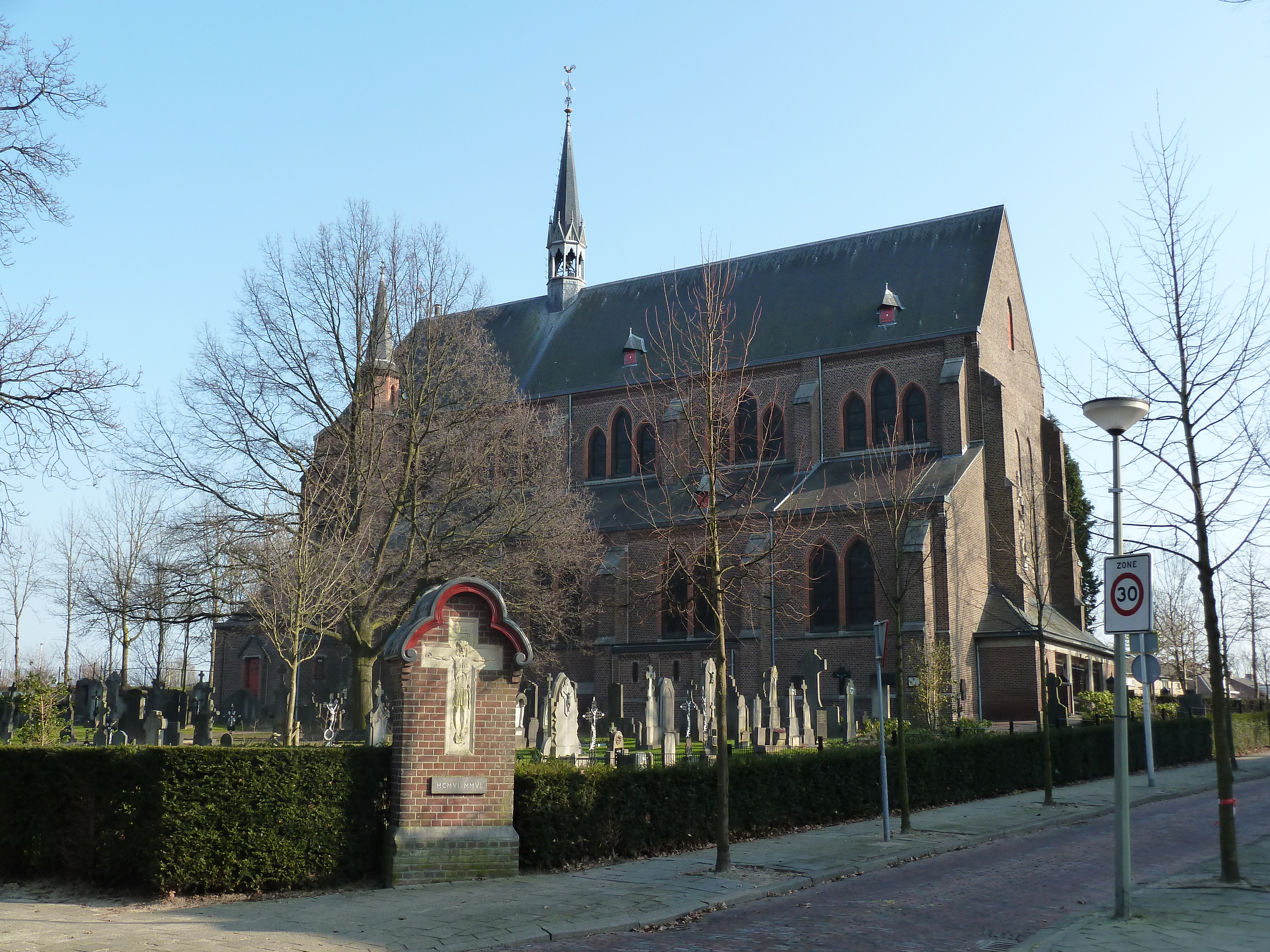 Johannes Evangelistkerk in Hoensbroek, Heerlen, Limburg, the Netherlands